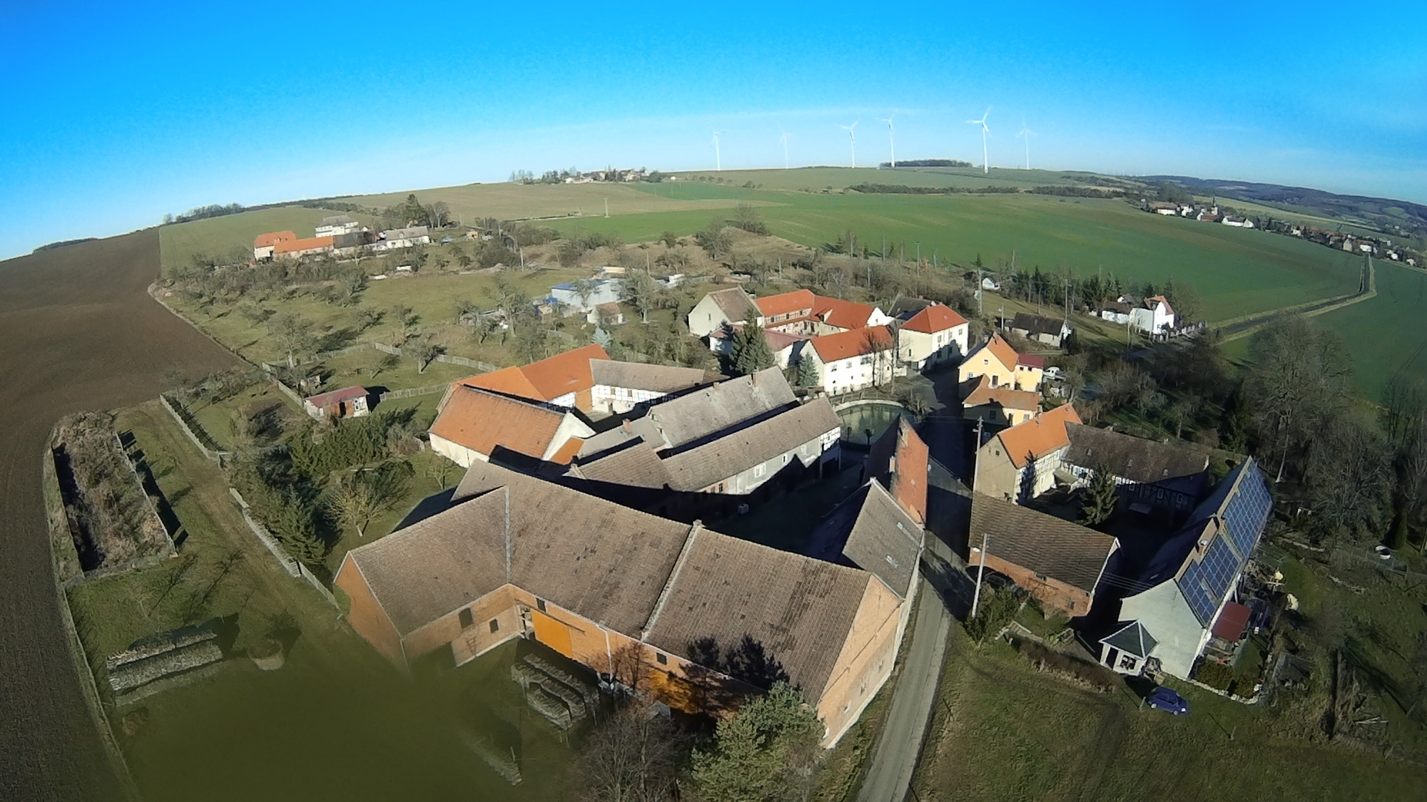 Schmörschwitz village